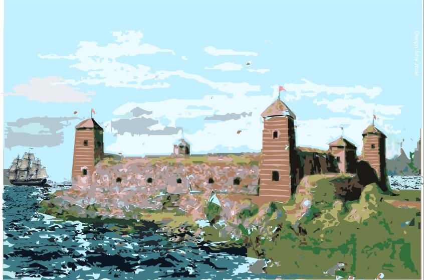 The Oulu Castle